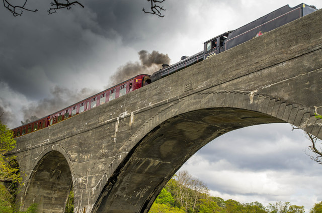 Holiday steam